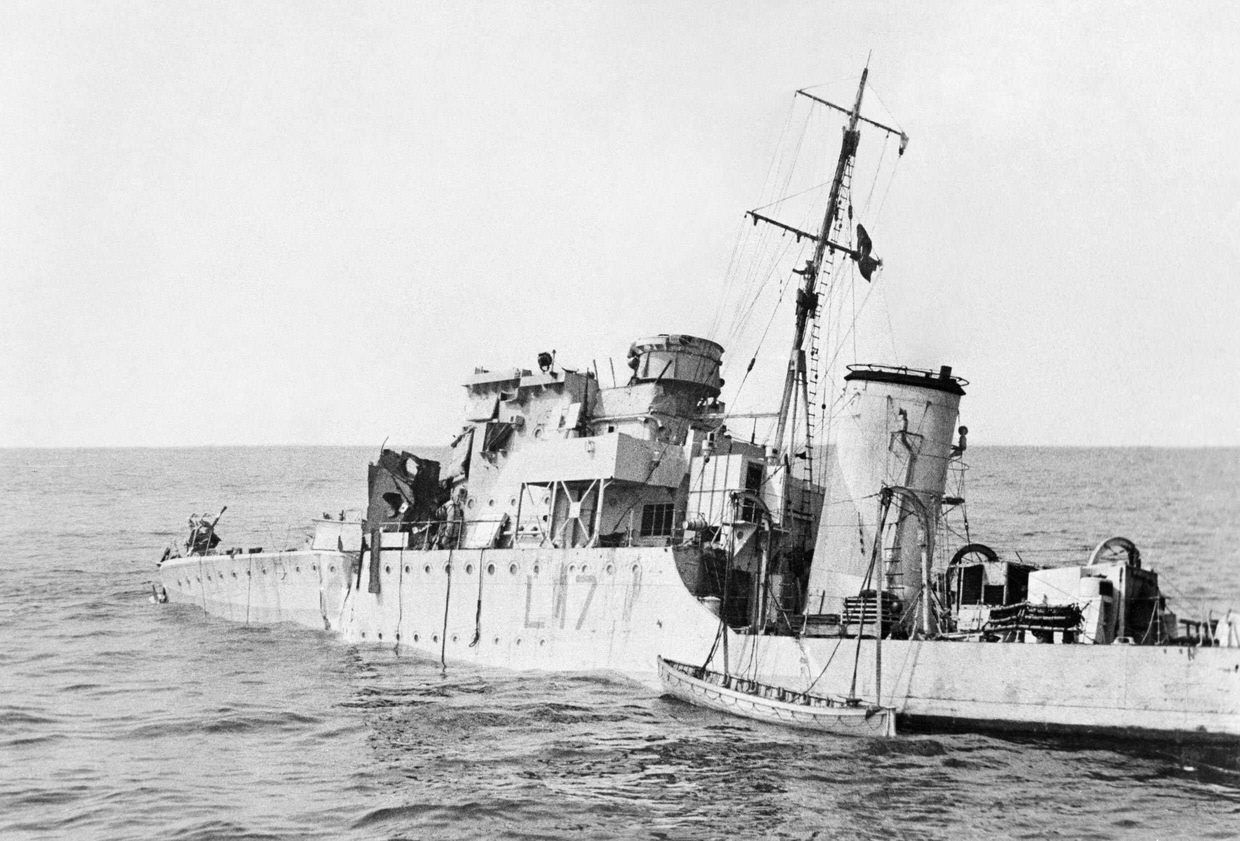 The Royal Navy during the Second World War- the Dieppe Raid, August 1942 HMS BERKELEY settling down in the water after being bombed during the Combined Operations daylight raid on Dieppe. One of the destroyers boats is still alongside, empty but still attached to its davits. BERKELEY was torpedoed shortly afterwards by British forces.